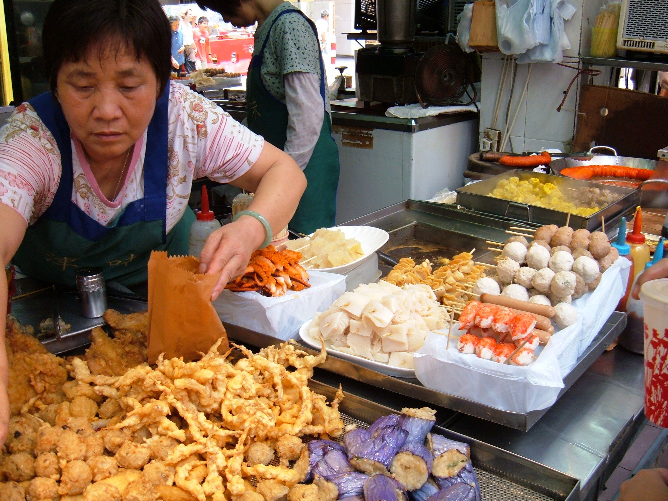 Street food vendor in Causeway Bay, Hong Kong, near Times Square.